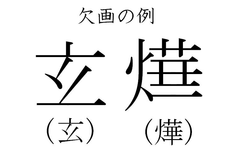 Avoidance of naming taboo: Example of omitting a stroke. The last stroke of each character of Kangxi Emperor's given name "玄" (xuán) and "燁" (yè) is omitted. (produced by the original contributor)